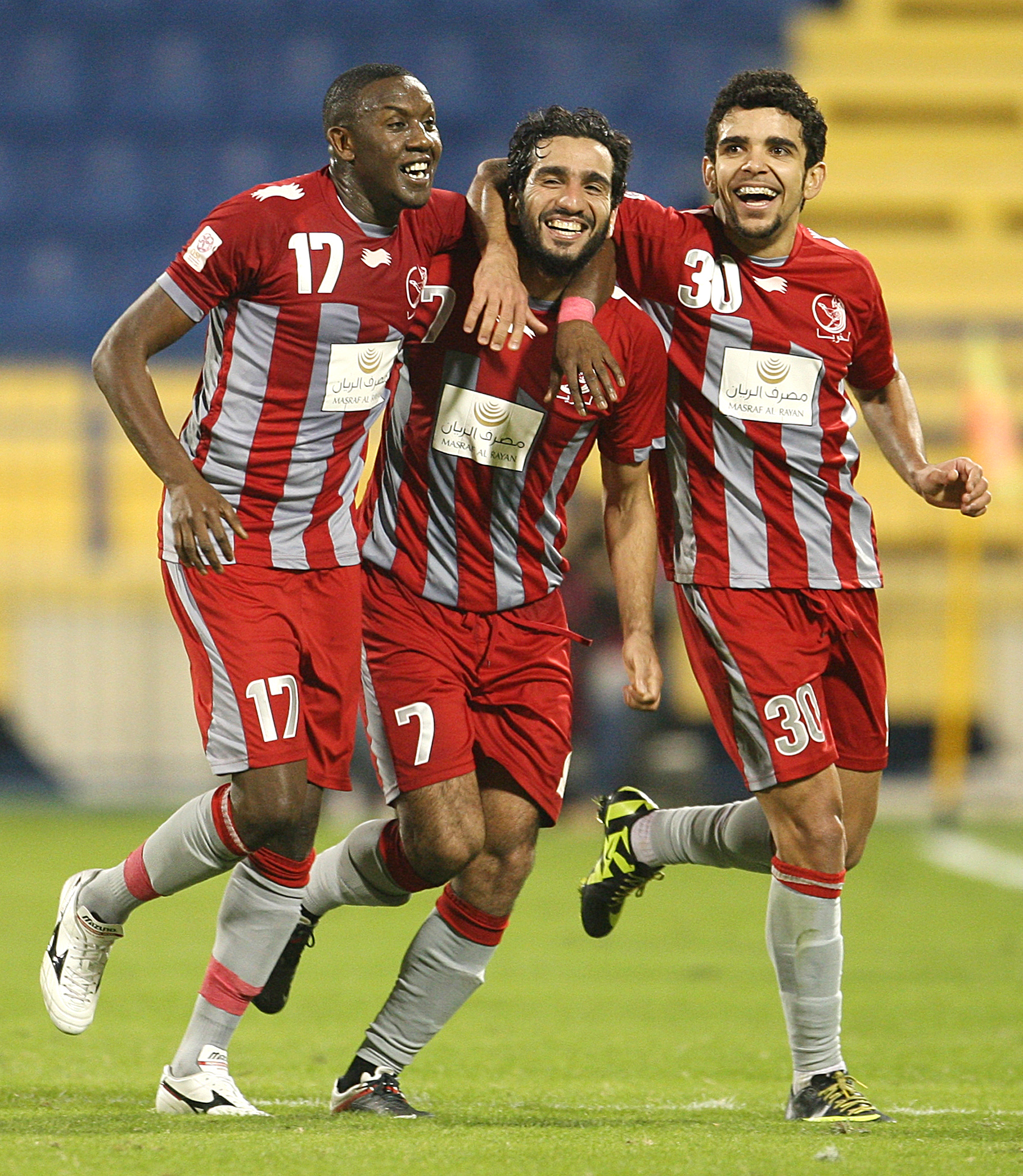 Lekhwiya players, from left, Mohammed Musa, Adel Lamy and Luiz Martin Carlos Júnior celebrate a goal during their Qatar Stars League match. Pic by Mohan